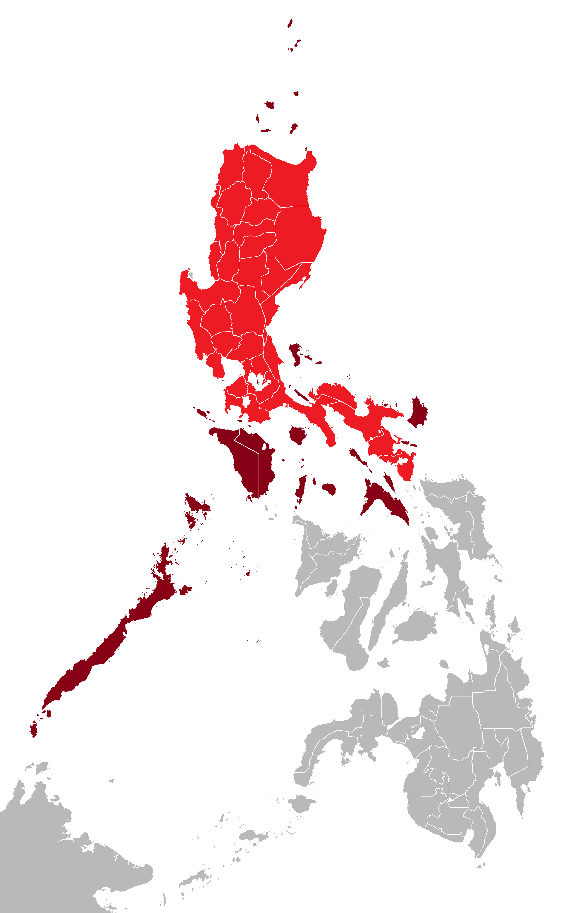 Derived from File:BlankMap-Philippines.png Map of Luzon Island In red